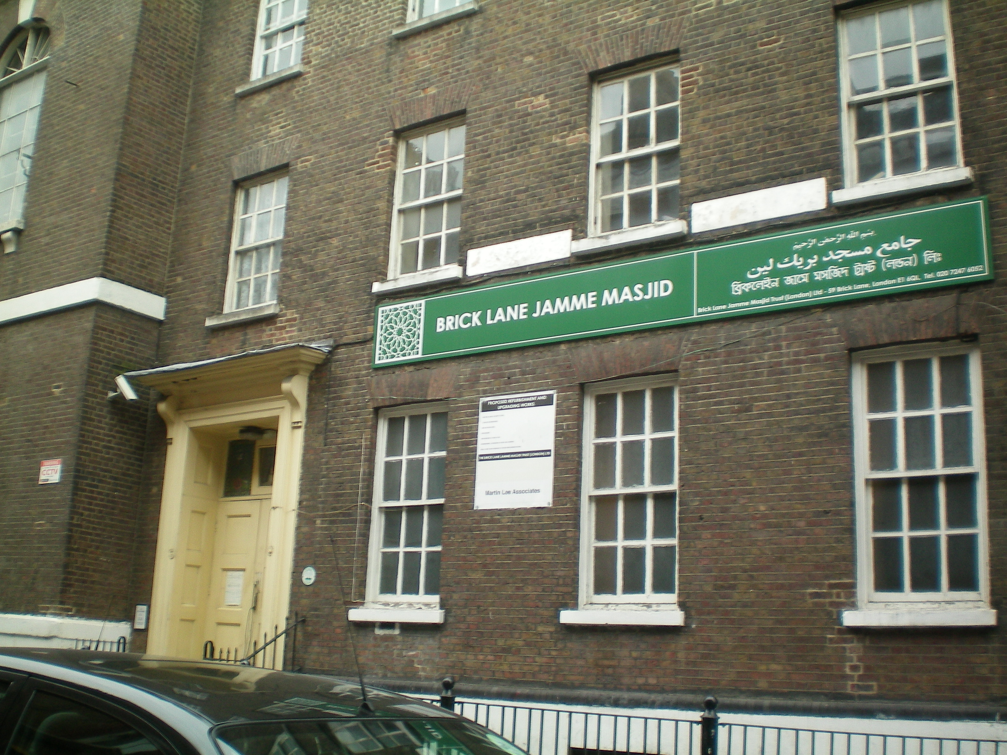 Brick Lane Jamme Masjid, a mosque in Brick Lane.